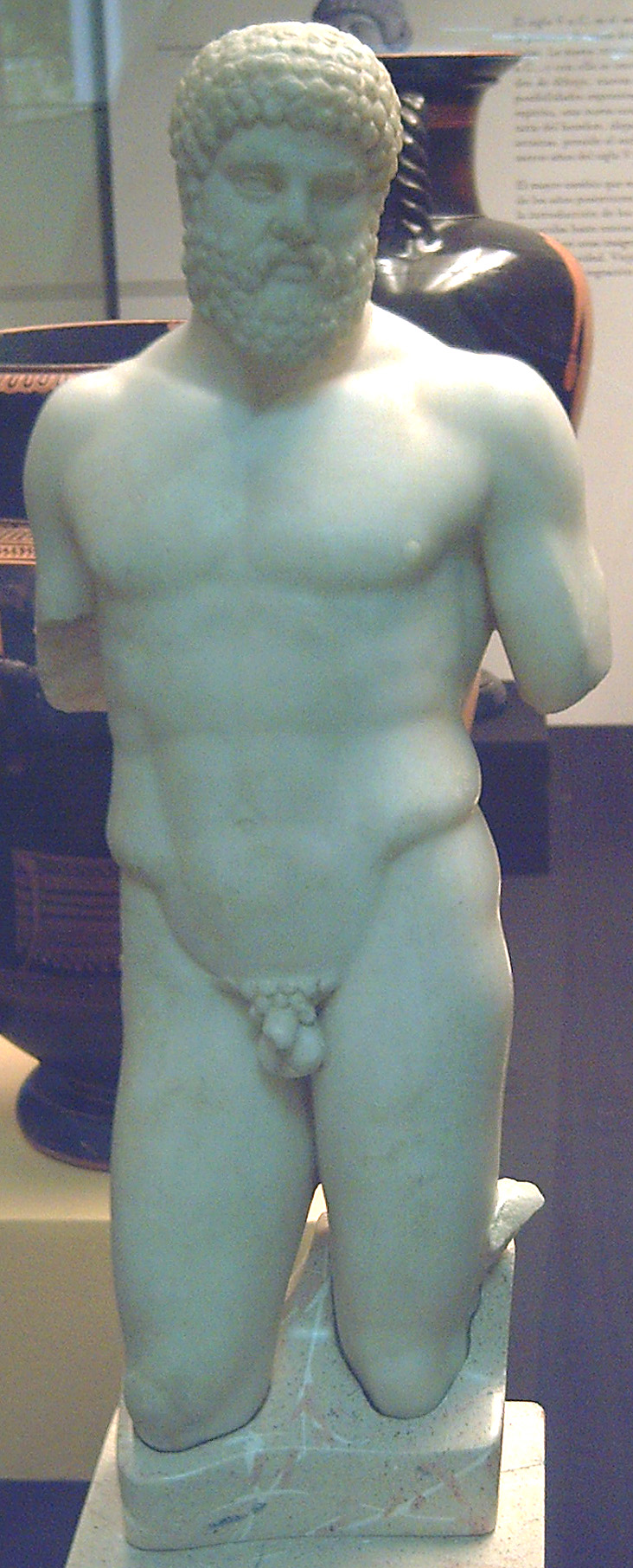 An Ancient Roman statue of Hercules.